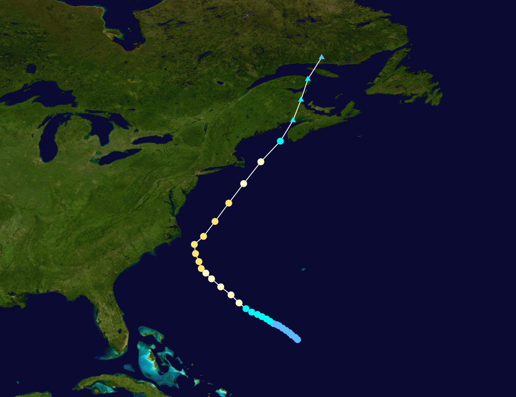 1940 Atlantic hurricane 4 track. Uses the color scheme from the Saffir-Simpson Hurricane Scale.